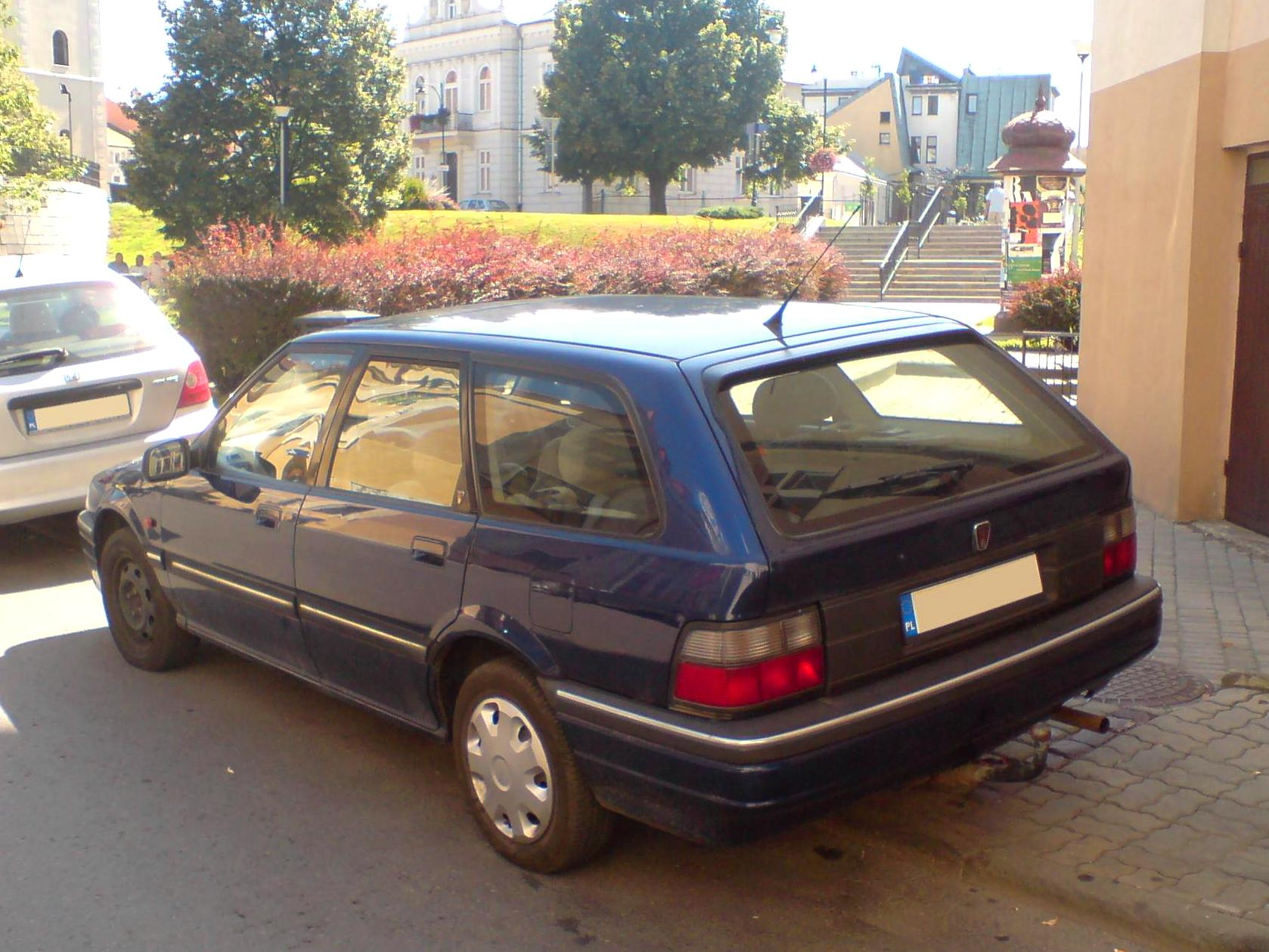 Rover 400 Series Tourer in Rzeszów